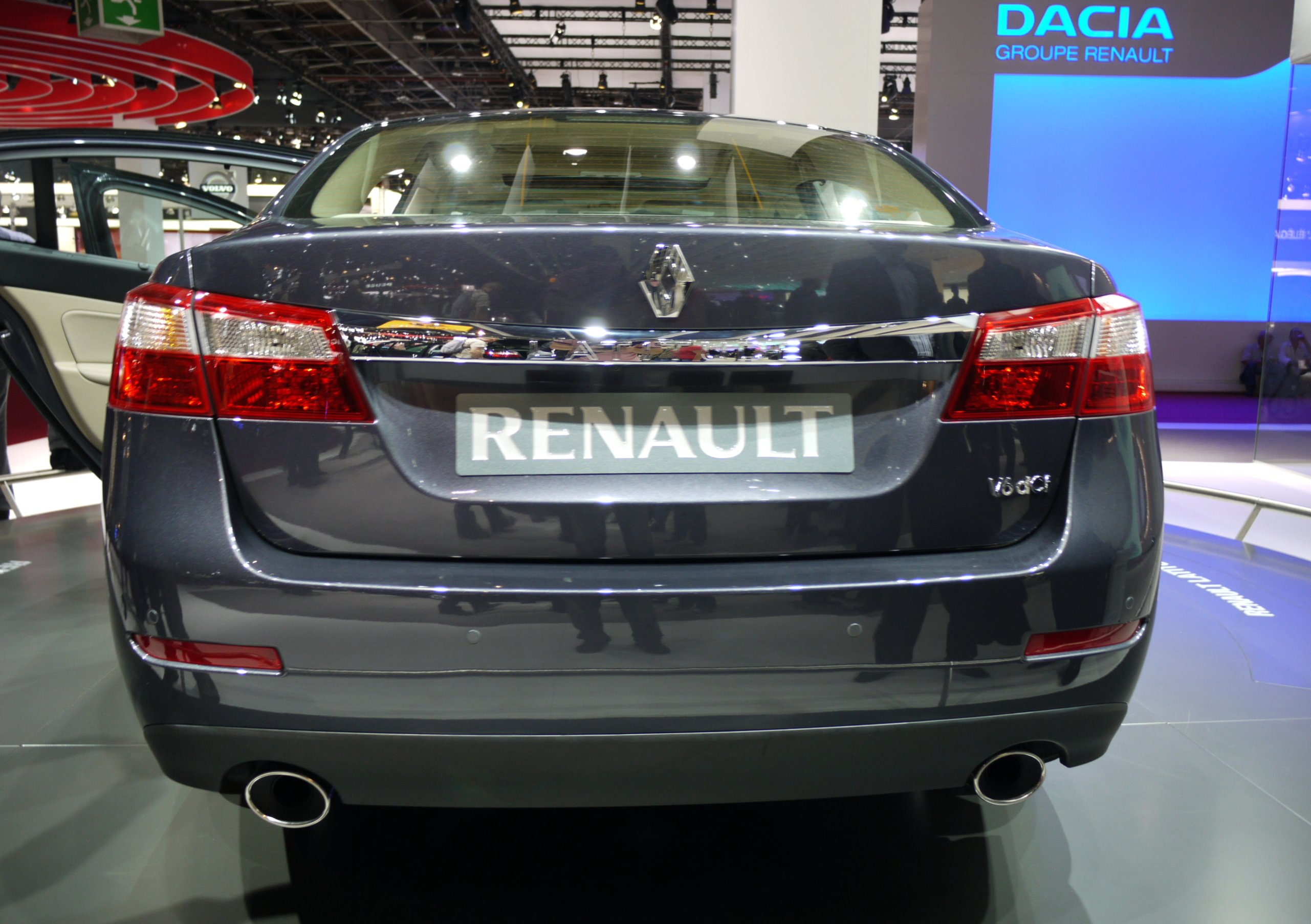 Renault Latitude V6 dCI - new top of the range model based on the Samsung SM5.